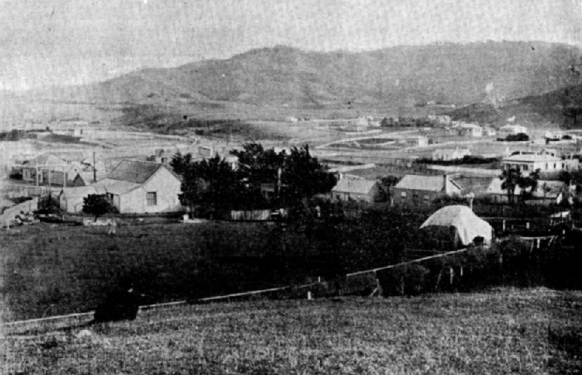 View of Johnsonville, showing the Wellington and Manawatu Railway line and the Johnsonville Railway Station, in the left background. Johnsonville, Wellington.